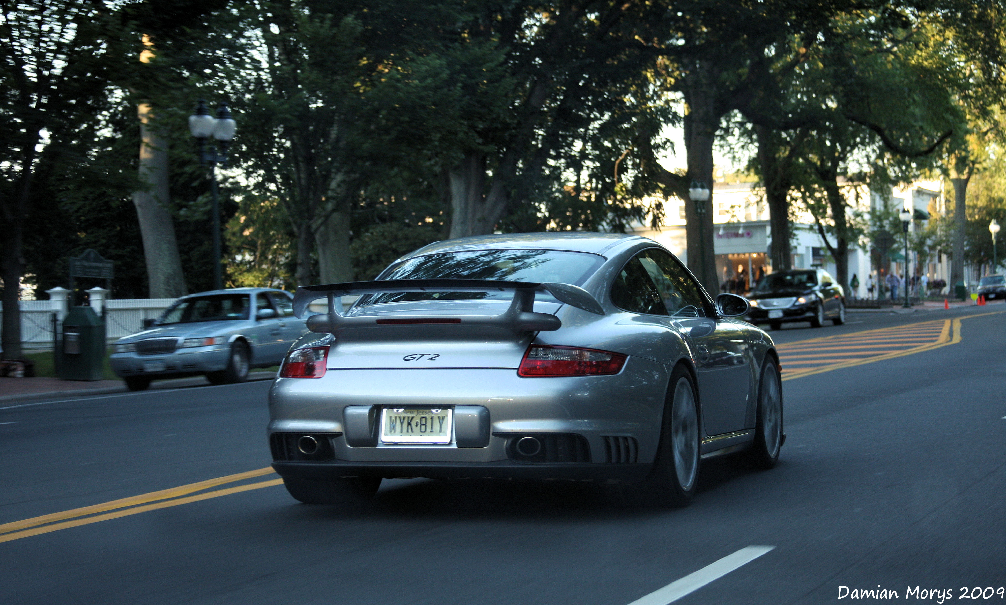 Old shot from August last year - one of many from the Hamptons I never posted. Just re-edited this shot as well.